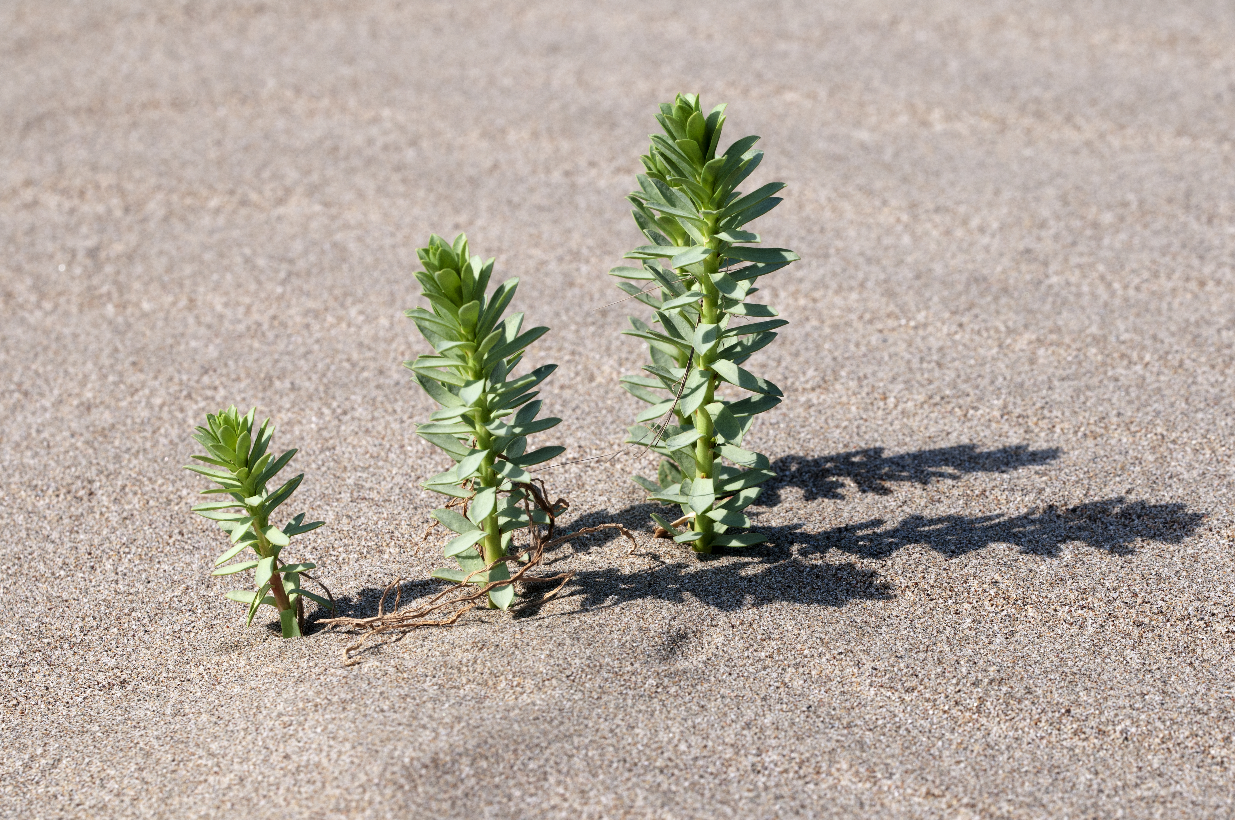 Sea spurge (Euphorbia paralias). Karataş - Adana, Turkey.